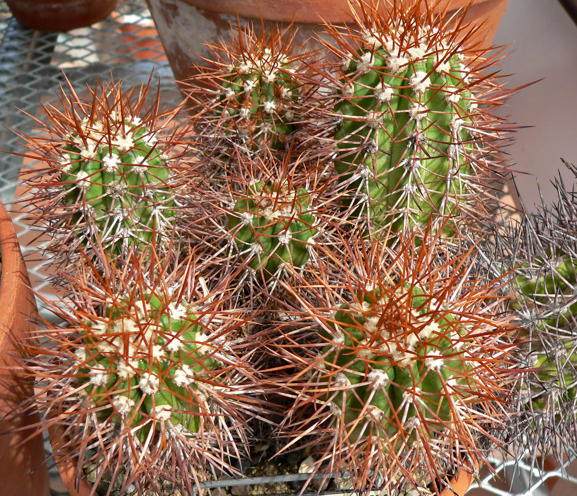 Copiapoa humilis at the University of California Botanical Garden, Berkeley, California